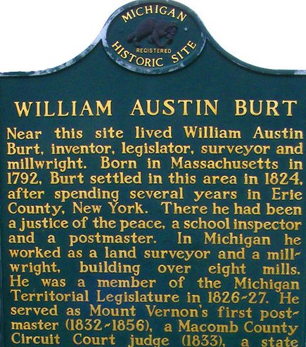 Burt historic marker at Stony Creek Metropark in Detroit, Michigan